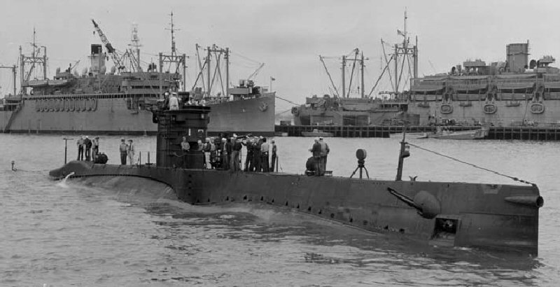 USS Harris (APA-2) moored in the background of this photo of USS S-38 (SS-143) following overhaul at San Diego, April 1943. US Navy photo # 1198-43 from the Puget Sound Naval Shipyard collection now held at Seattle NARA.